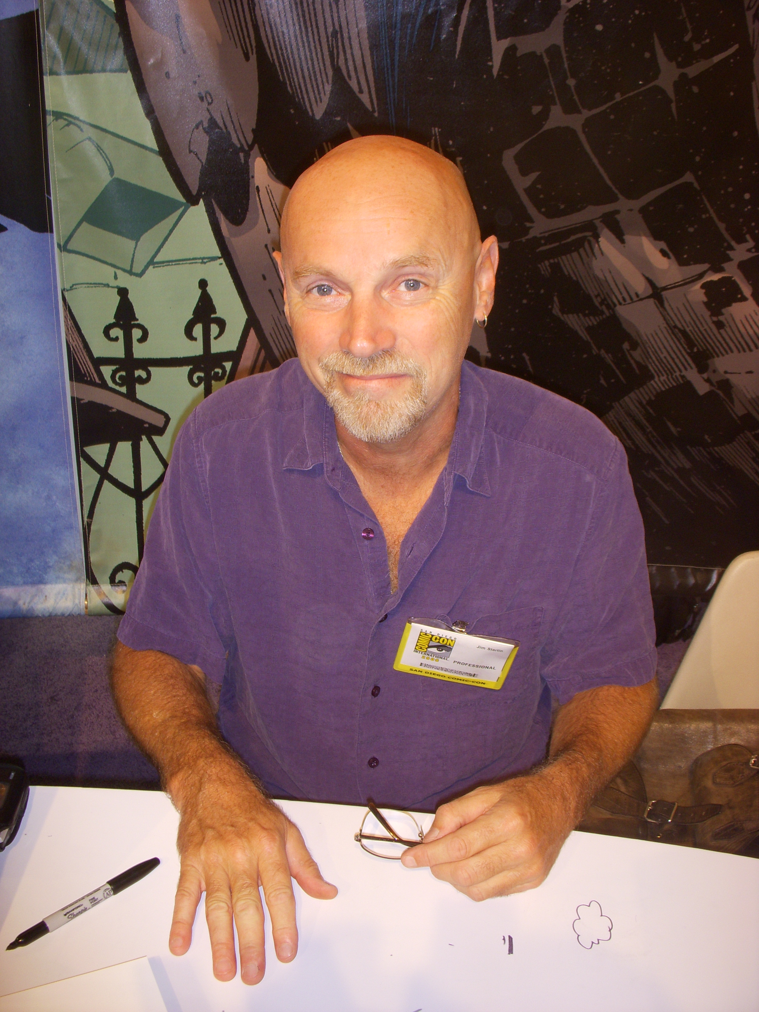 Jim Starlin.